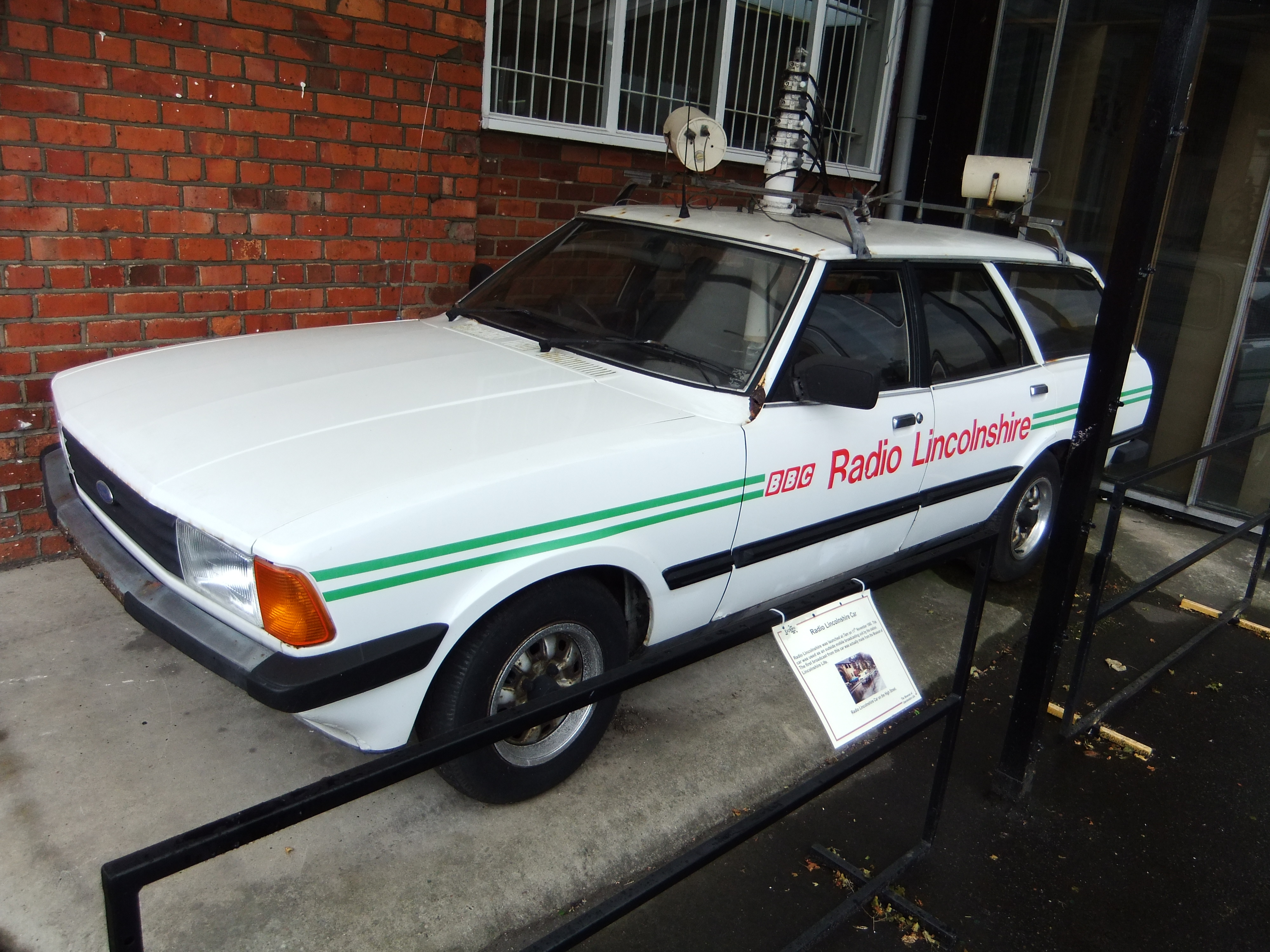 BBC Radio Lincolnshire car. Photo taken at The Museum of Lincolnshire Life, Lincoln, England.